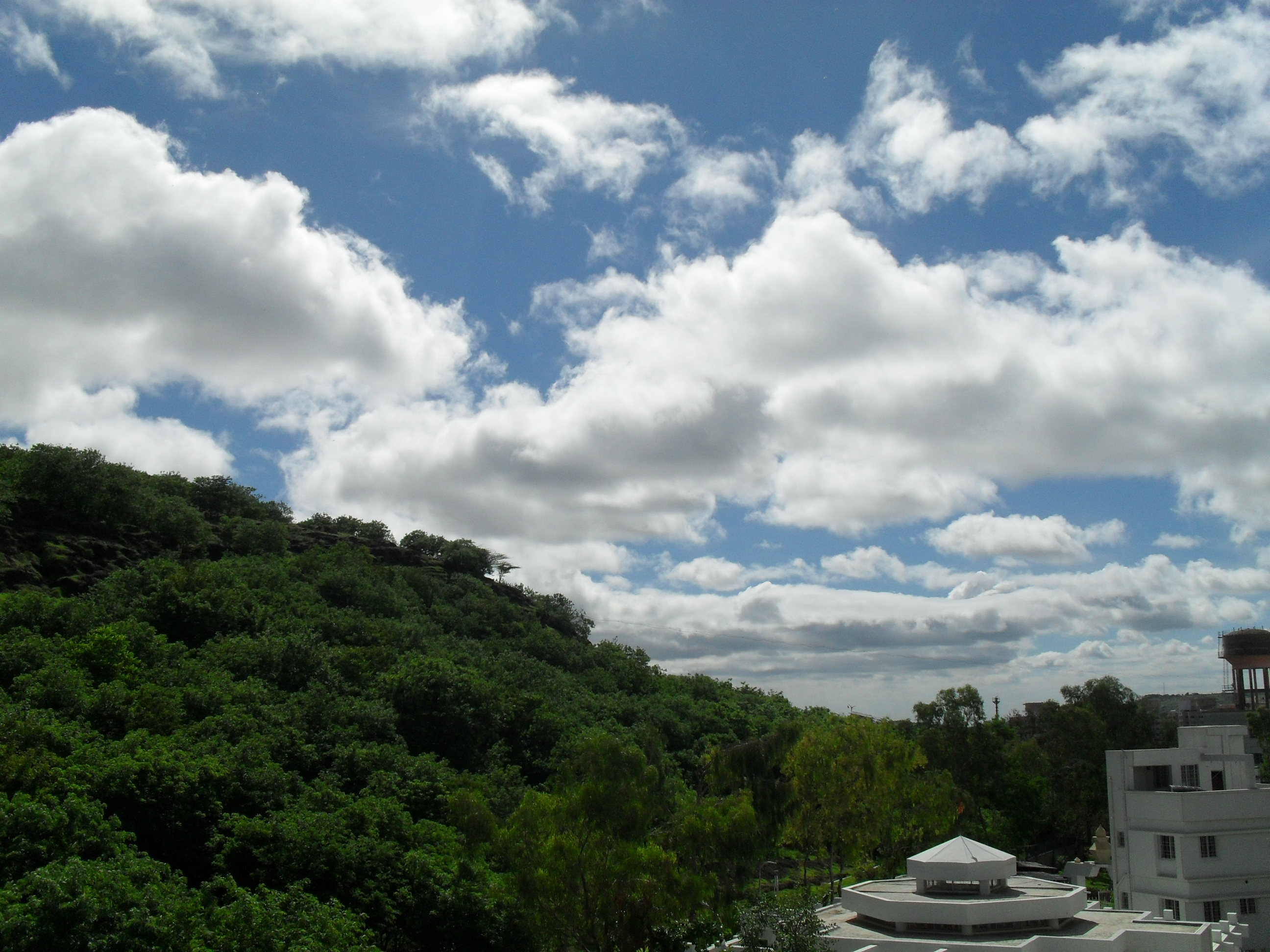 Baner hill nature from my house